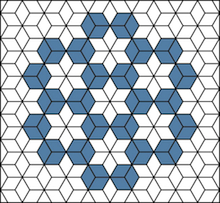 An example of implicit rhombille tiling in English heraldry (here the badge is illustrated).